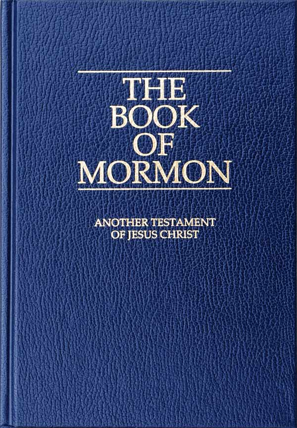 The Book of Mormon, Another Testament of Jesus Christ. Published by The Church of Jesus Christ of Latter-day Saints, August 2009.